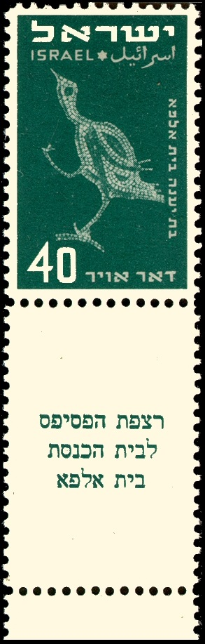 Airmail 1950 stamp- 40 mil, First definitive series. Inscription: "Ostrich Bet Alpha". Inscription on tab: "Mosaic floor of the synagogue at Bet Alpha".